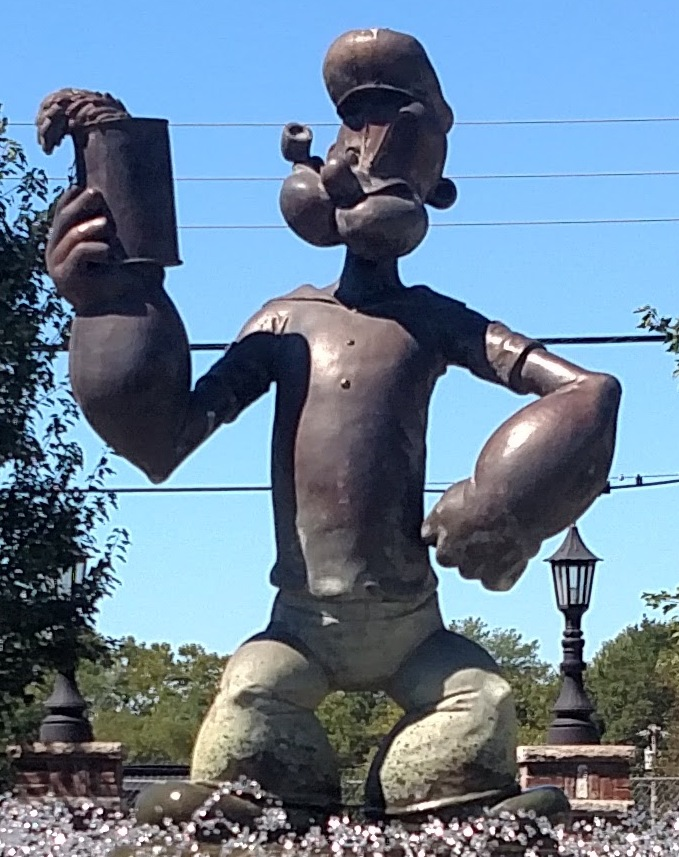 Popeye Statue and surrounding gardens in downtown Alma